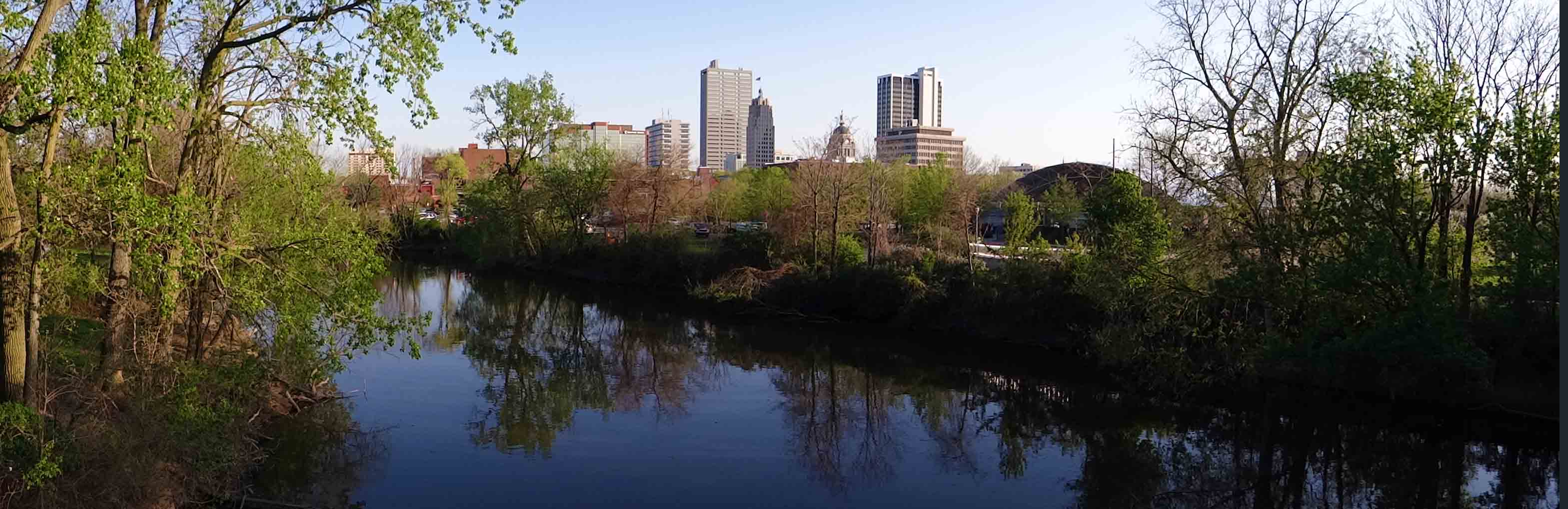 View from footbridge between the Old Fort and Headwaters Park, facing south over the St. Marys River.